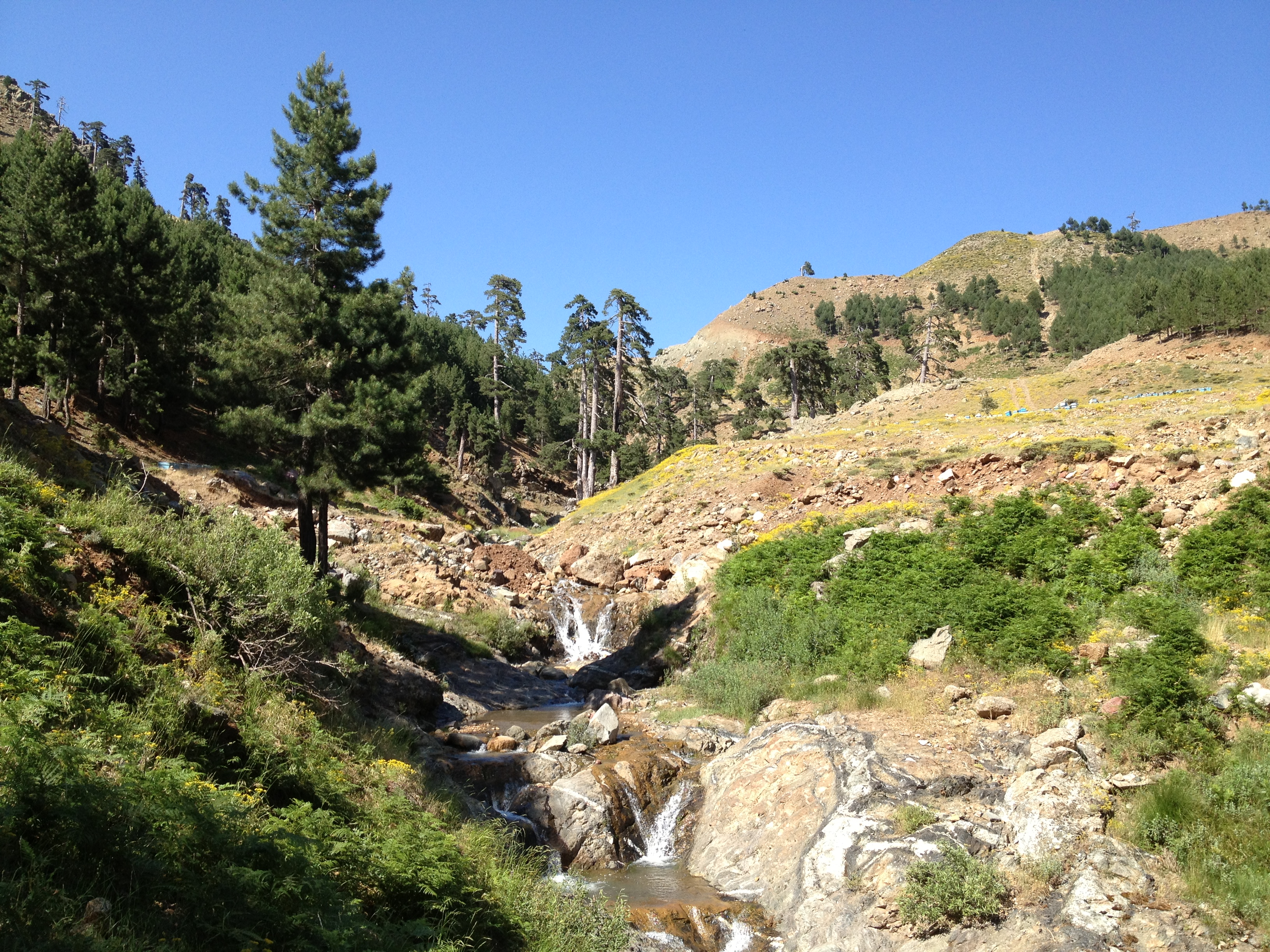 A view of Acisu Stream located in Aciman Higland in southern part (Adana) of Aladaglar National Park.